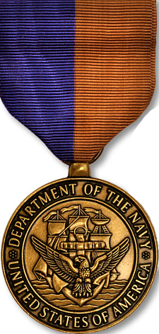 The Navy Meritorious Public Service Award is an award presented by the U.S. Secretary of the Navy to civilians. It is the third highest recognition that the Navy may pay to a civilian not employed by the Department of the Navy.